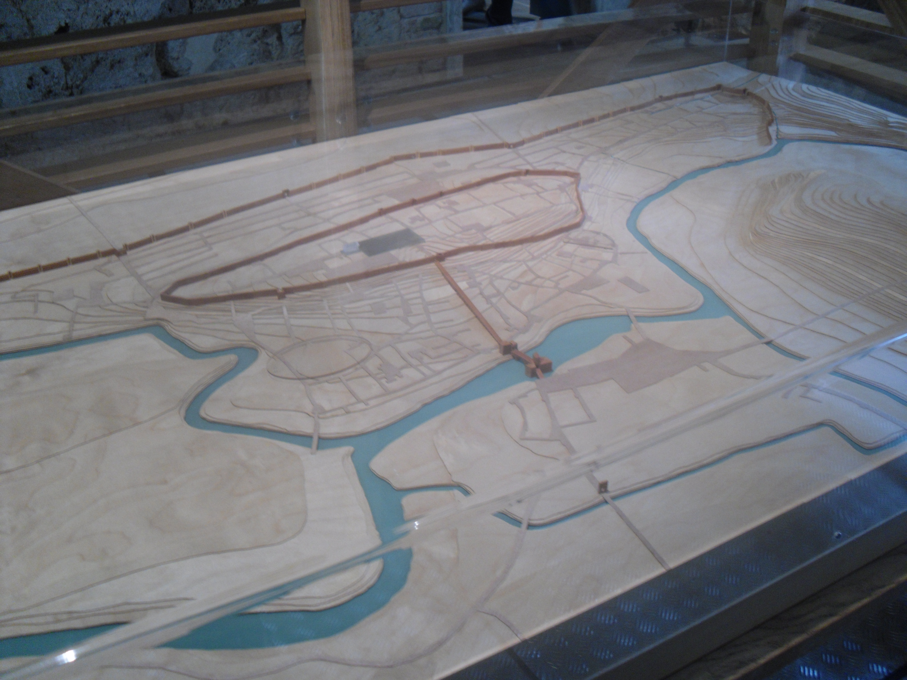 Reconstruction of Rieti during Roman empire